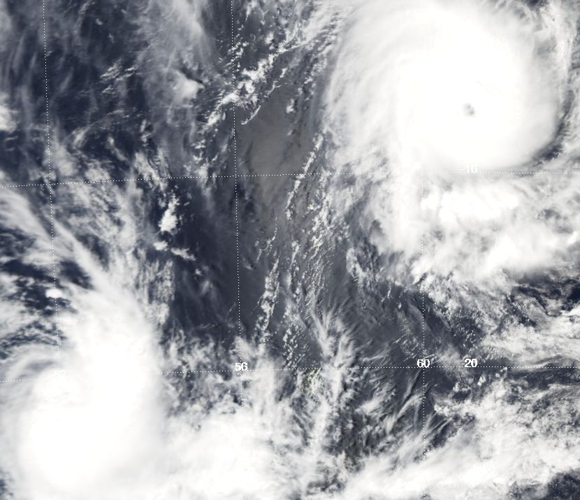 Tropical Cyclones Fame and Gula, seen from MODIS on the Aqua satellite at 0940Z January 29.